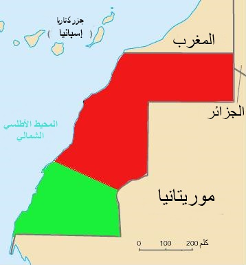 sahara division